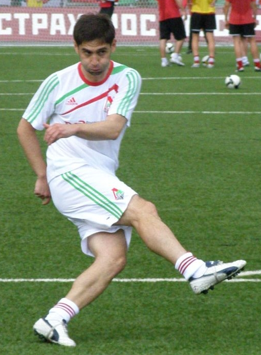 Davit Mujiri warming up for FC Lokomotiv Moscow